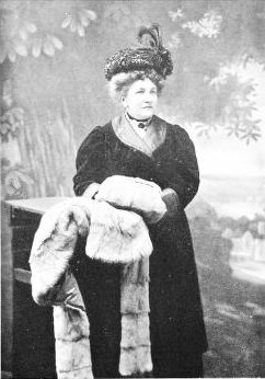 Photo portrait of Lucy Bethia Walford